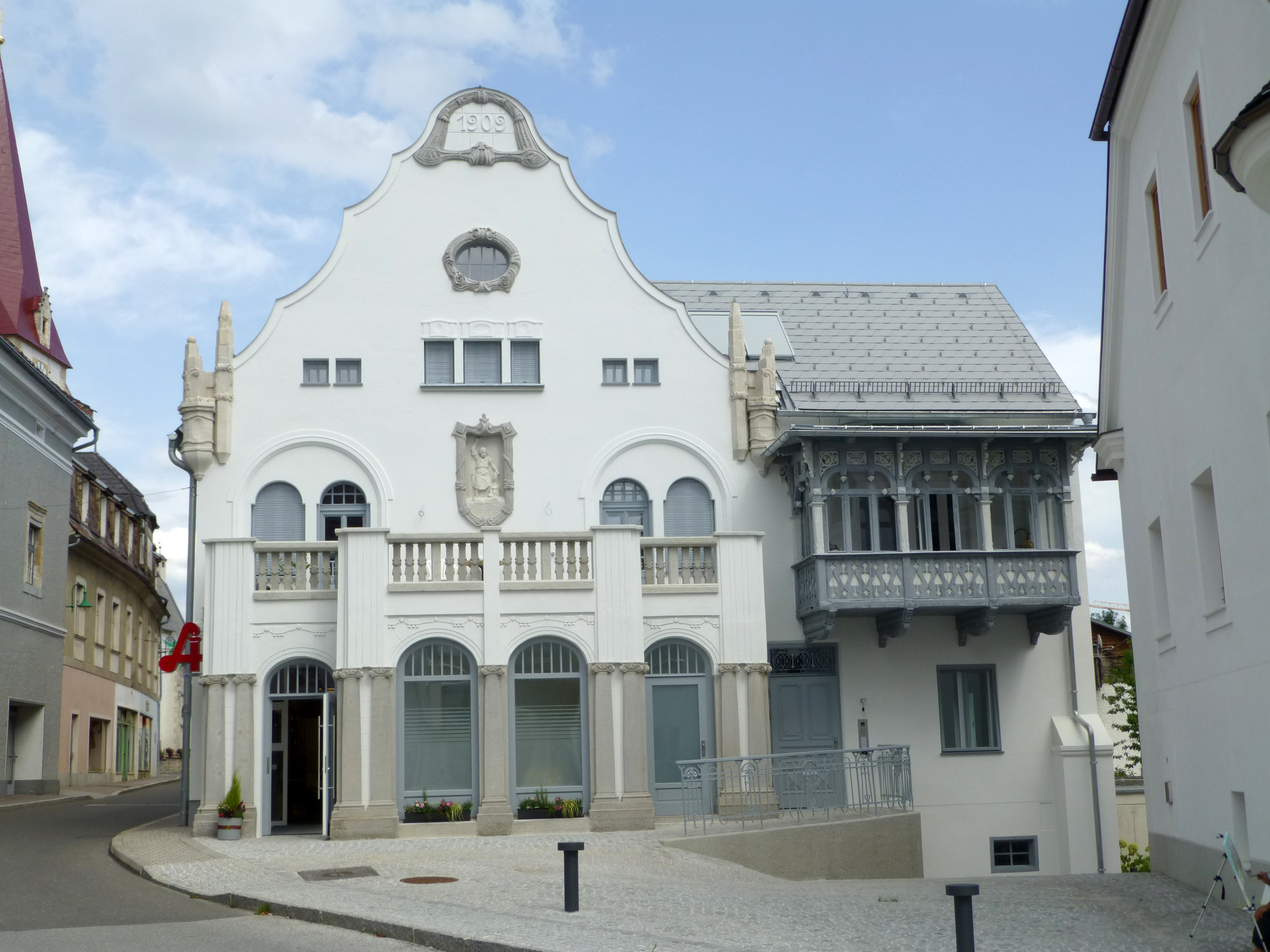 Art nouveau House 1909 in Aflenz, Styria. Not in the protected list!